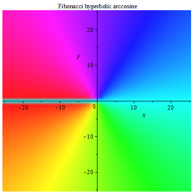 Fibonacci hyperbolic arccosine 2D density plot